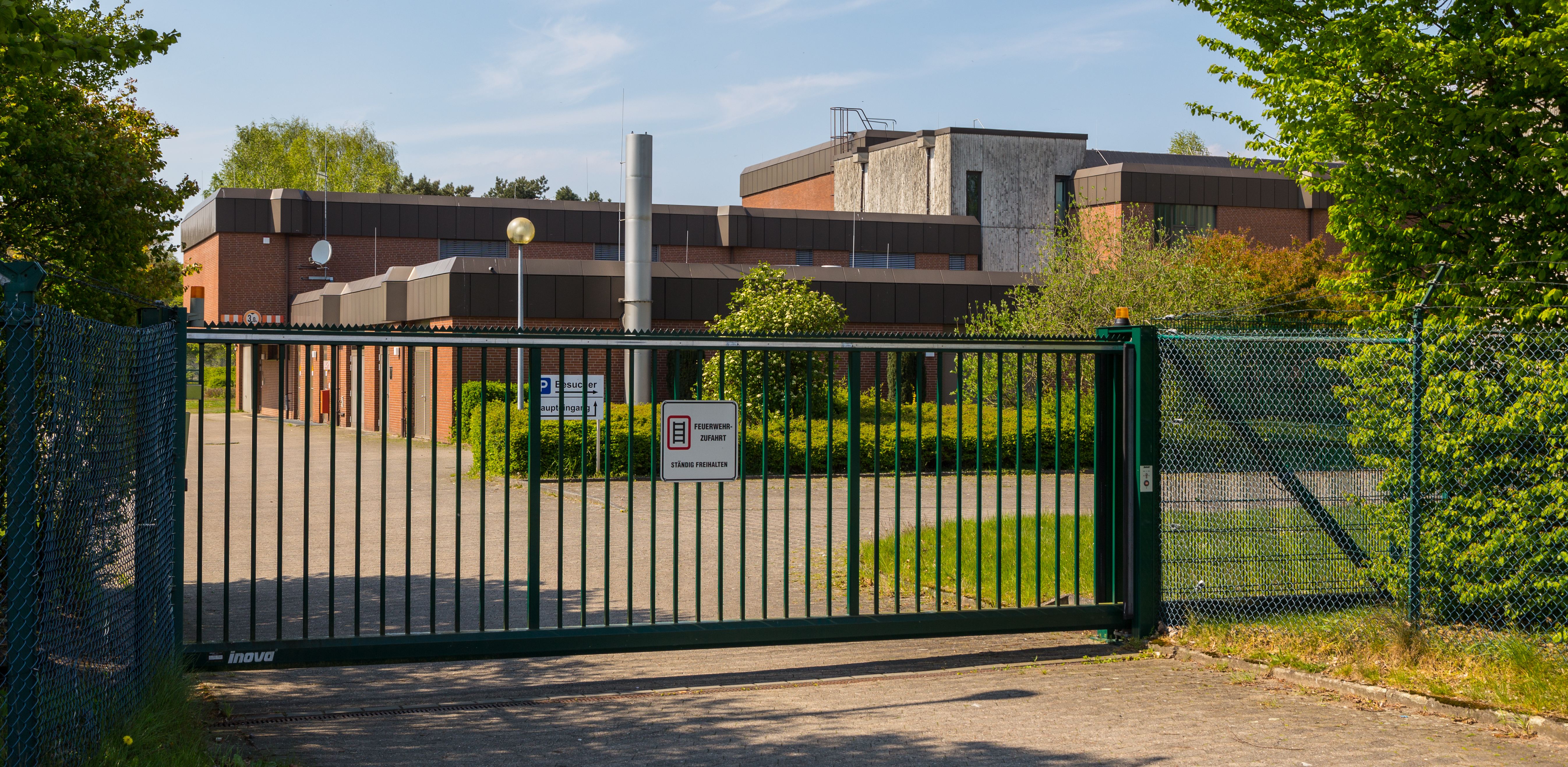 Brochterbeck water work (Wasserwerk Brochterbeck) in Tecklenburg-Brochterbeck, Kreis Steinfurt, North Rhine-Westphalia, Germany. The water work is runned by the Wasserversorgungsverband Tecklenburger Land (WTL).